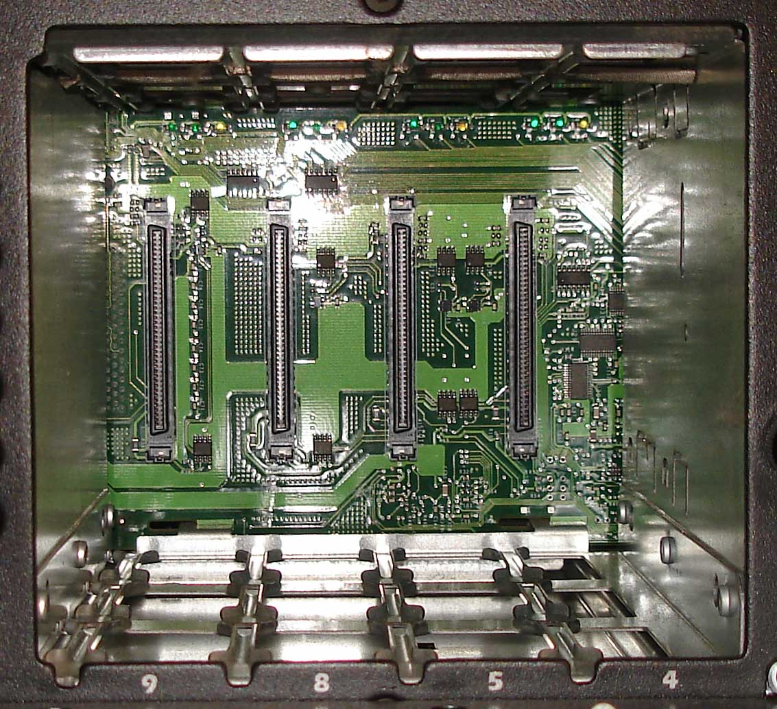 SCSI SCA backplane showing 80-pin SCA connectors. Photo taken by me 17:25, 24 April 2006 (UTC)